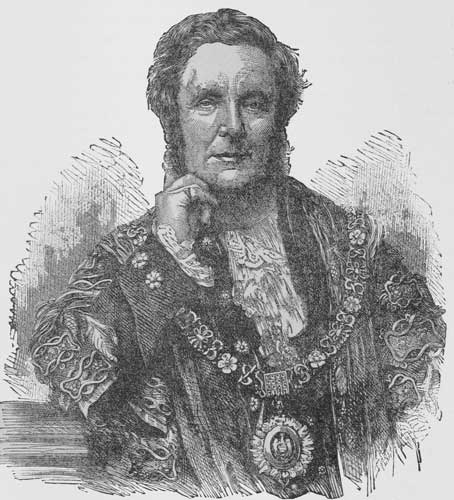 The Right Honorable Sir Sydney Waterlow, Lord Mayor of London in 1873, in official costume. First published in "Bidwell's Travels, from Wall Street to London Prison Fifteen Years in Solitude", copyrighted 1897 by Bidwell Publishing Company, Hartford, Conn.